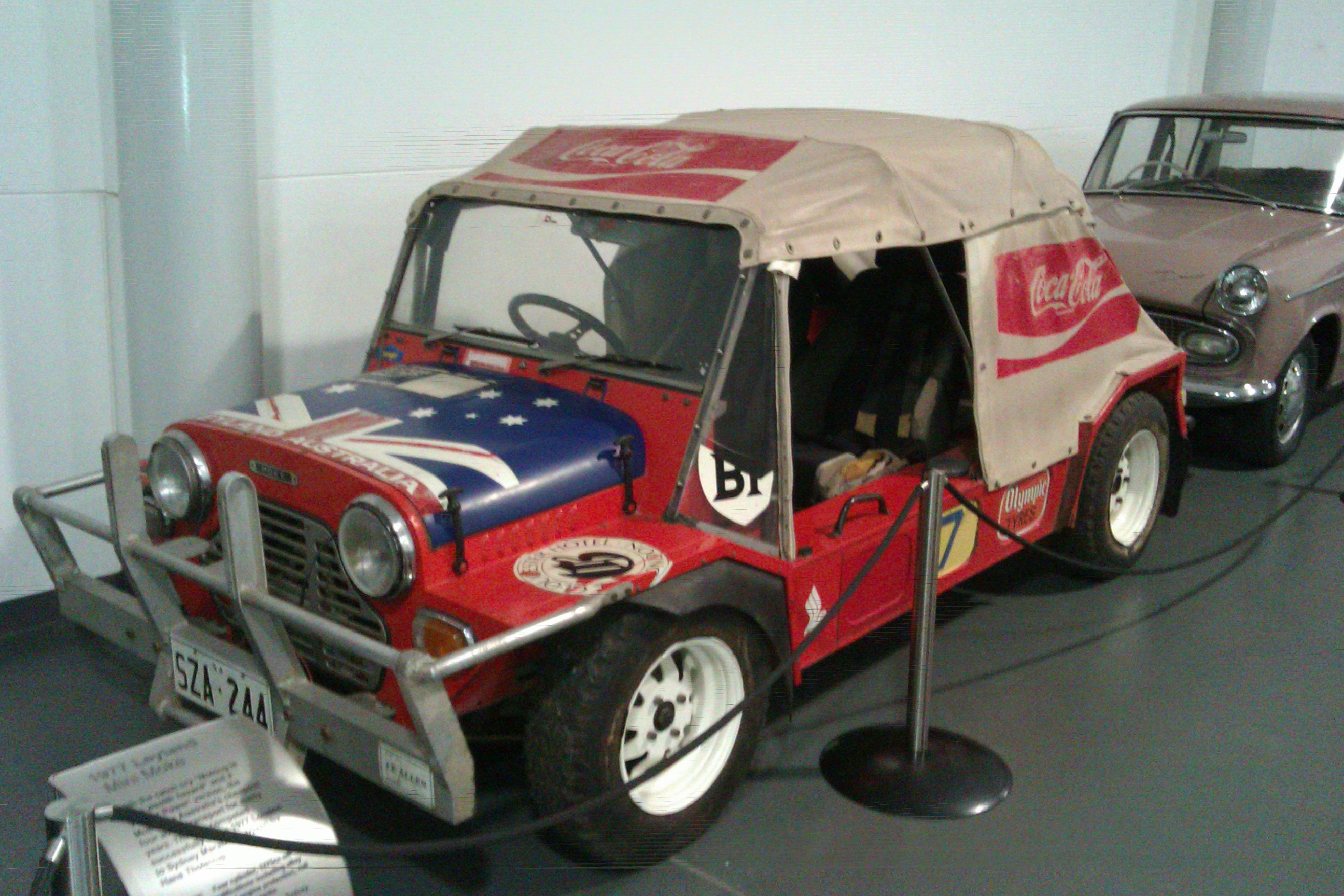 The Leyland Moke in which Hans Tholstrup and John Crawford finished 35th in the 1977 Singapore Airlines London to Sydney Rally. The car is pictured in the National Motor Museum at Birdwood in South Australia.